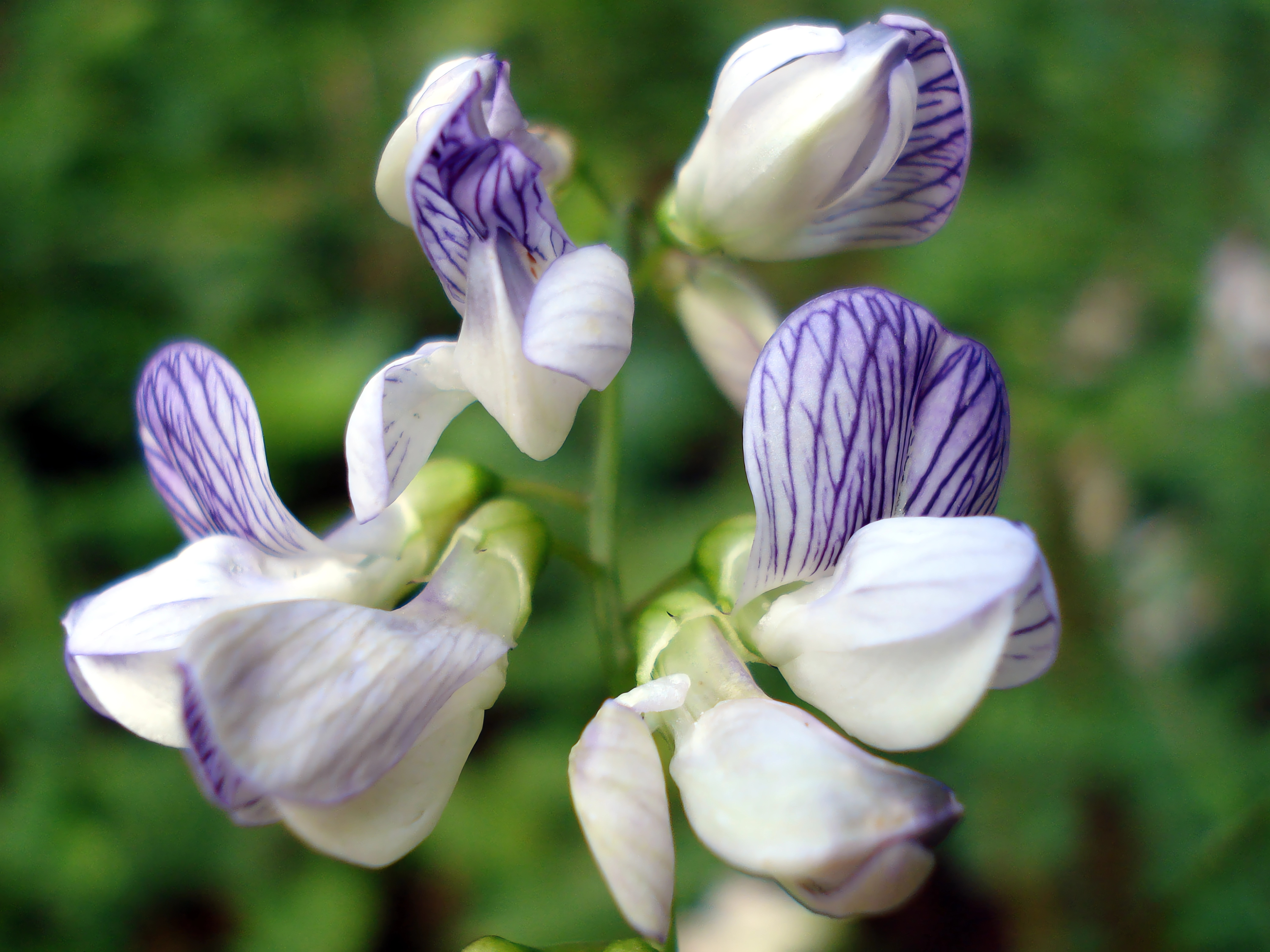 Vicia sylvatica (Unterfranken, Germany)